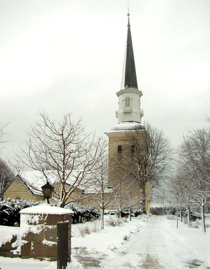 This church you can find on Ekerö outside Stockholm in Sweden.